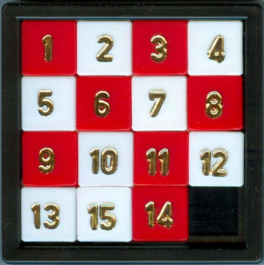 15-Puzzle, original problem.